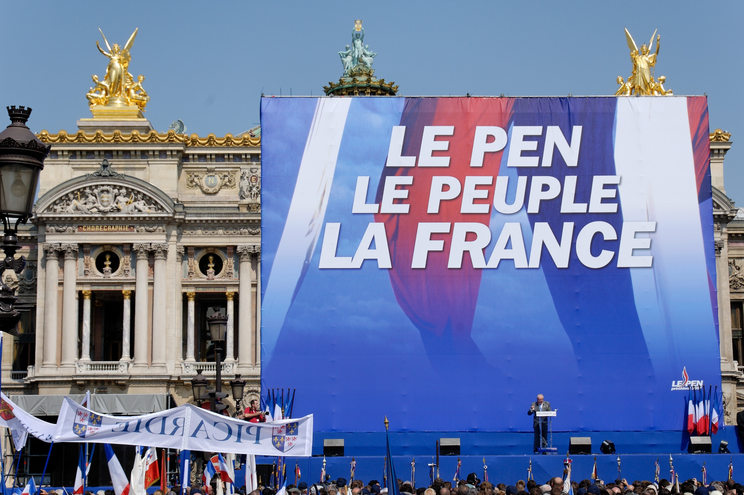 Jean-Marie Le Pen speaking at his National Front party's annual tribute to Joan of Arc in Paris.